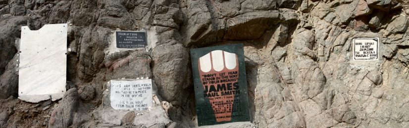 Affixed to the cliffside near Dahab's Blue Hole dive site: Plaques to commemorate divers who lost their life diving the Blue Hole.